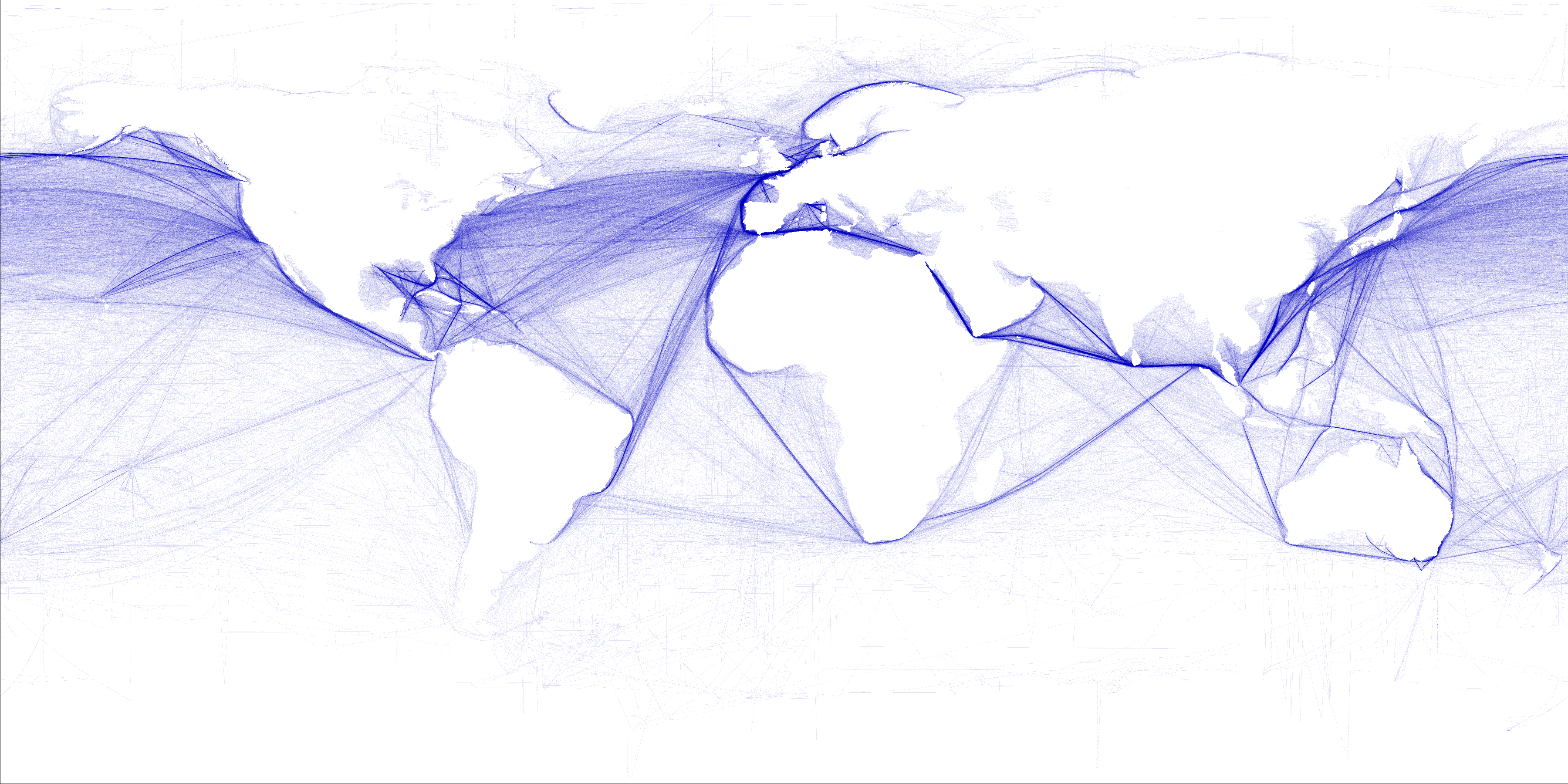 Shipping density (commercial)